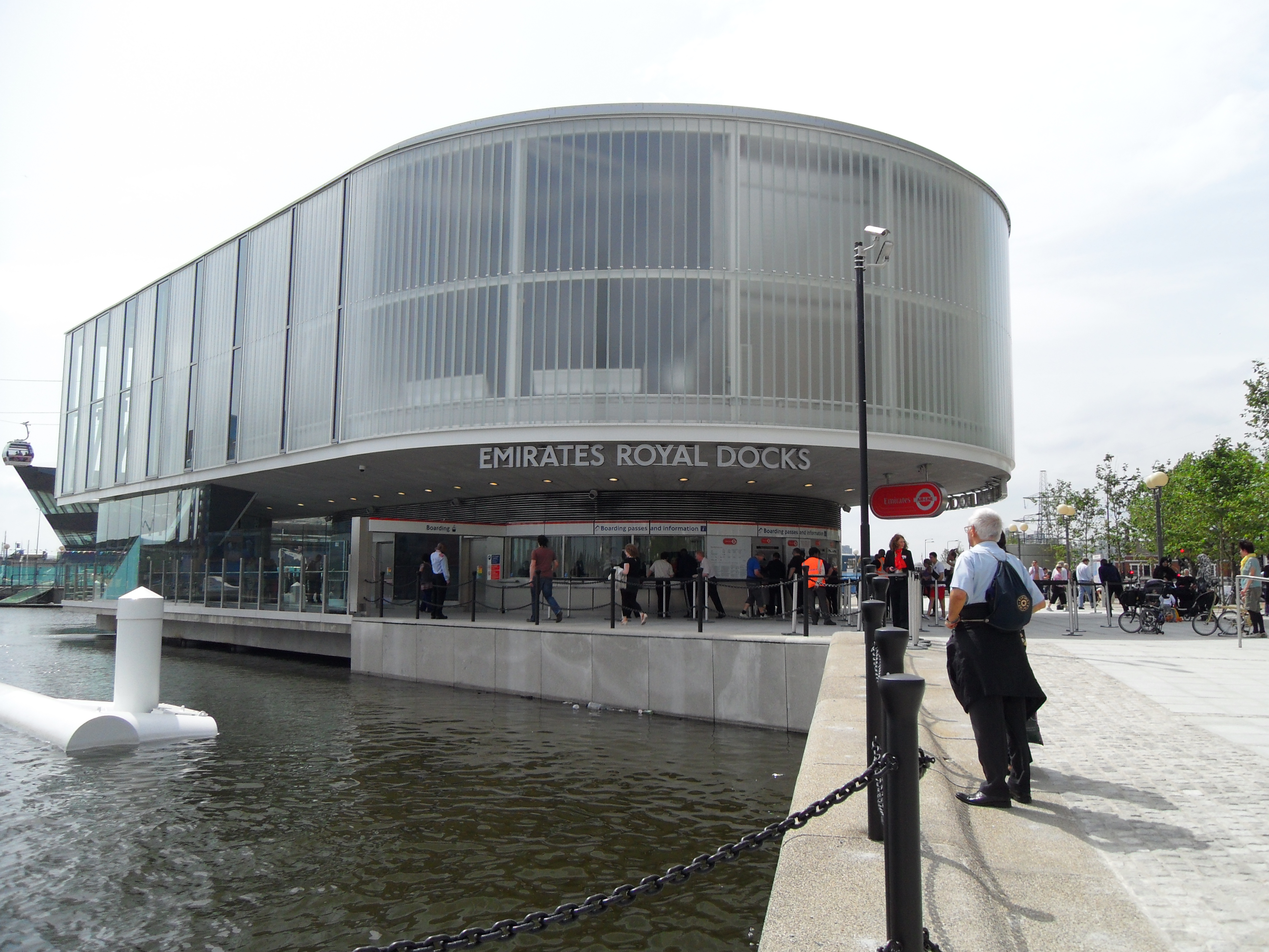 Emirates Royal Docks station on the Emirates Air Line, on first day of opening, 28 June 2012.